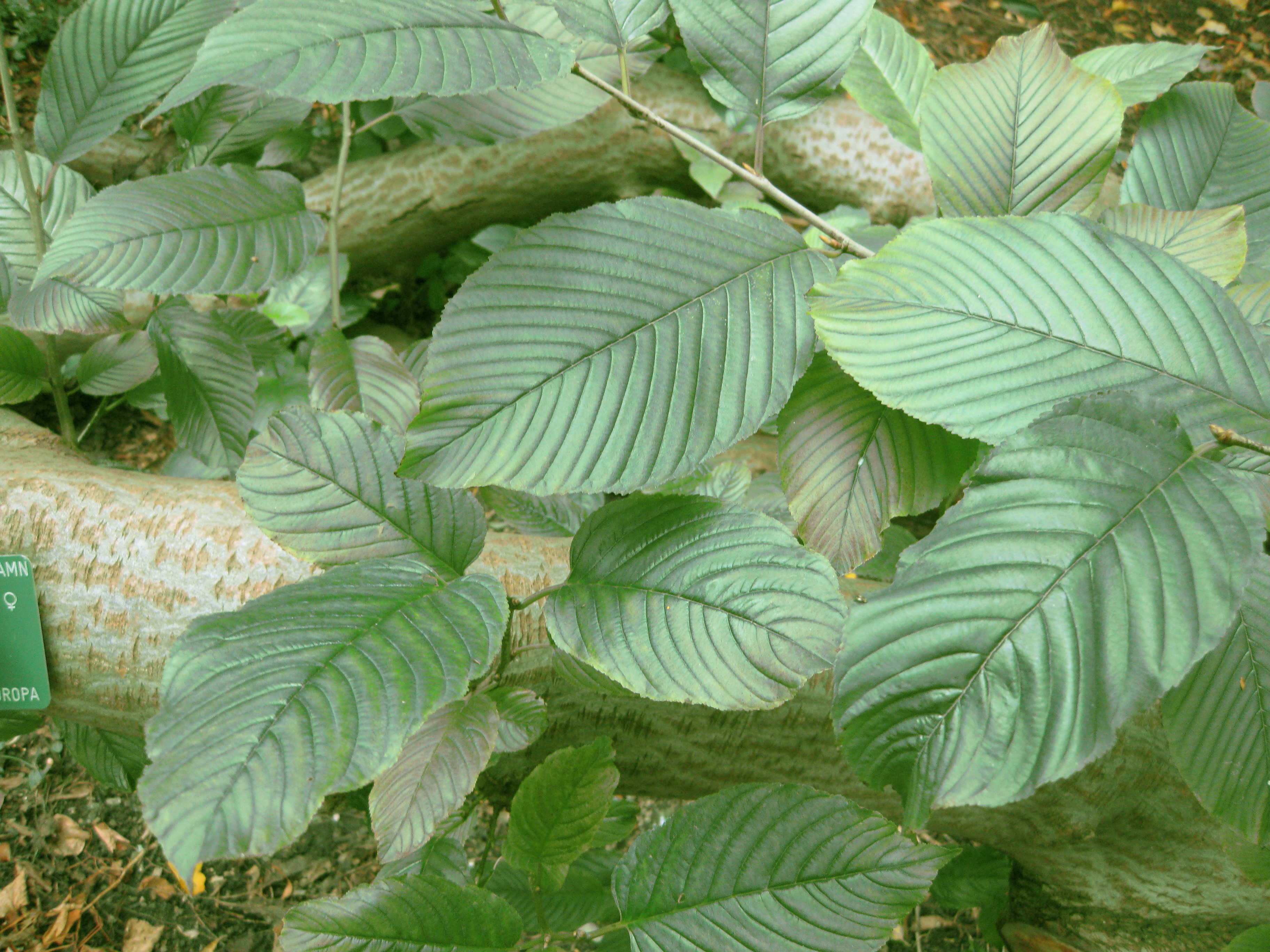 Rhamnus alpina in the botanical garden in Copenhagen, Danemark.